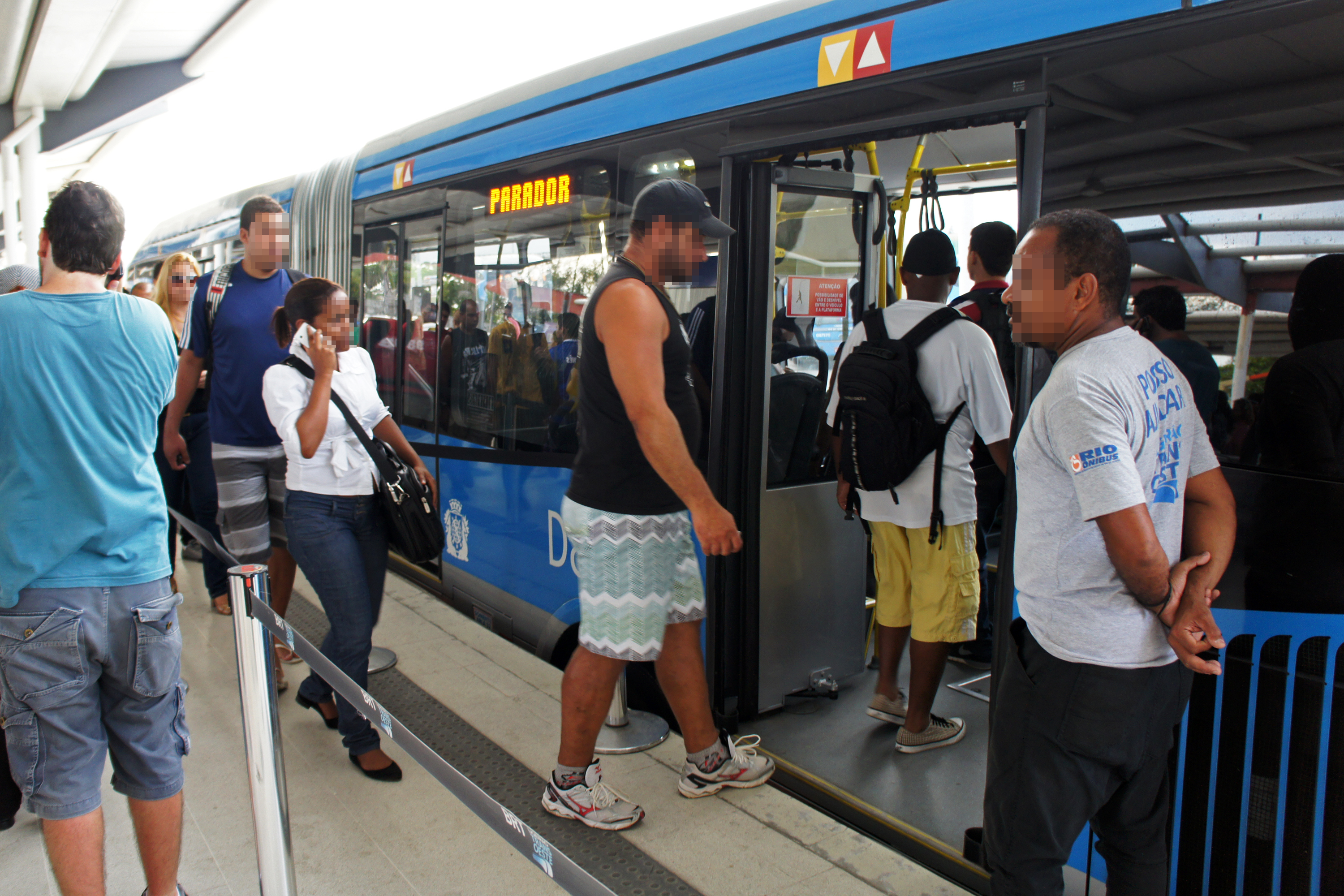 Passenger boarding an articulated bus from TransOeste at Alvorada Terminal. Barra da Tijuca, Rio de Janeiro.